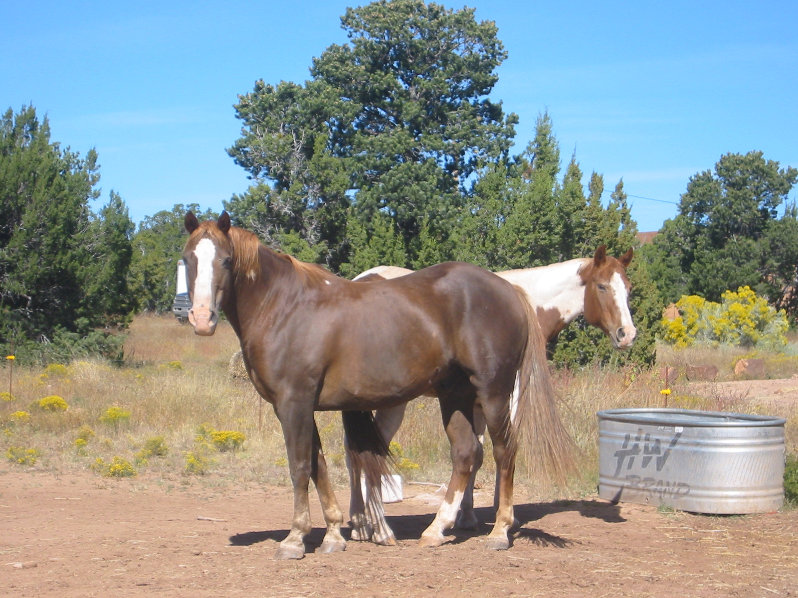 Unregistered Quarter/Paint Horse crosses